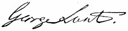 Signature of Massachusetts author, lawyer, politician and journalist George Lunt.